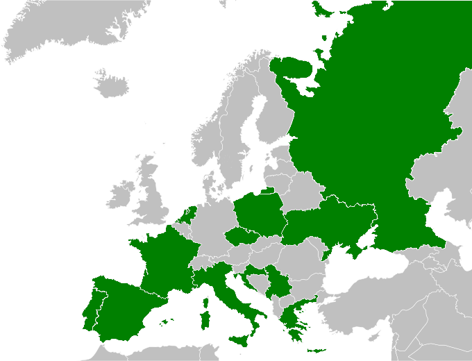 National volleyball teams which played in 2005 Men's European Volleyball Championship